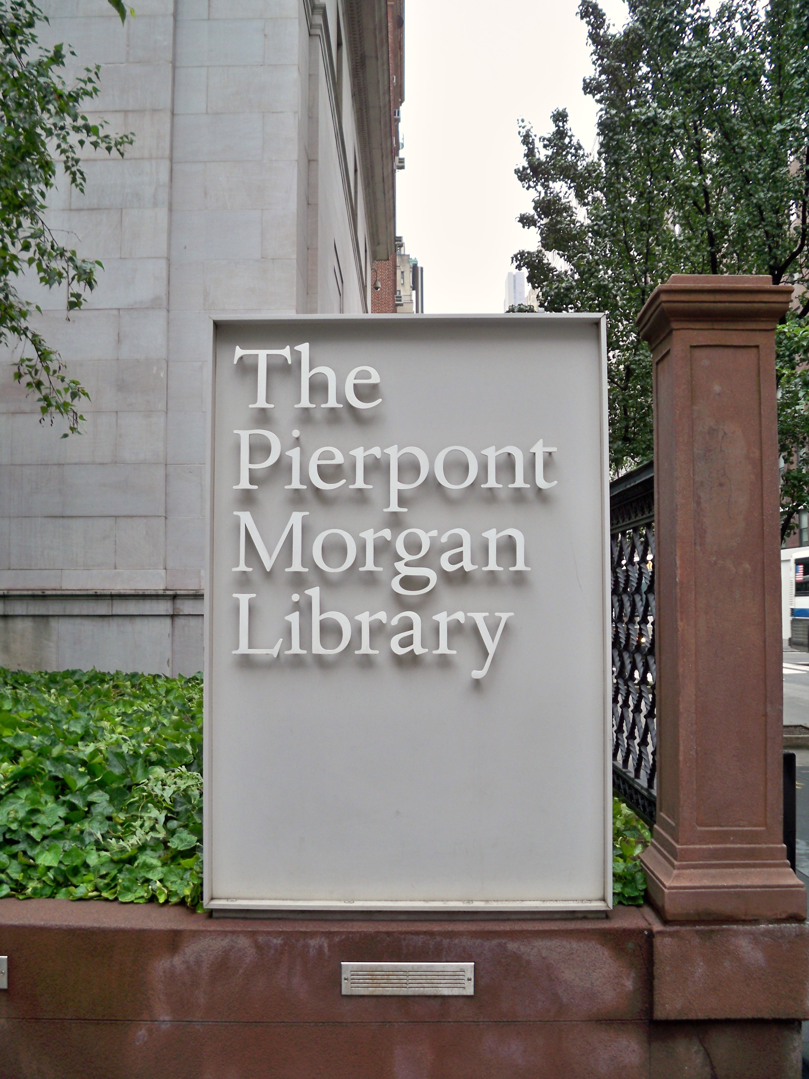 Main entrance sign to the J. P. Morgan Library and Museum.